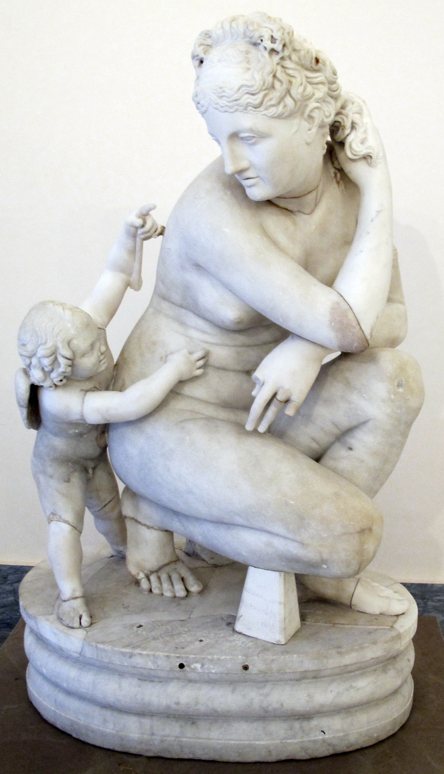 Ancient Roman statues in the Museo Archeologico (Naples)